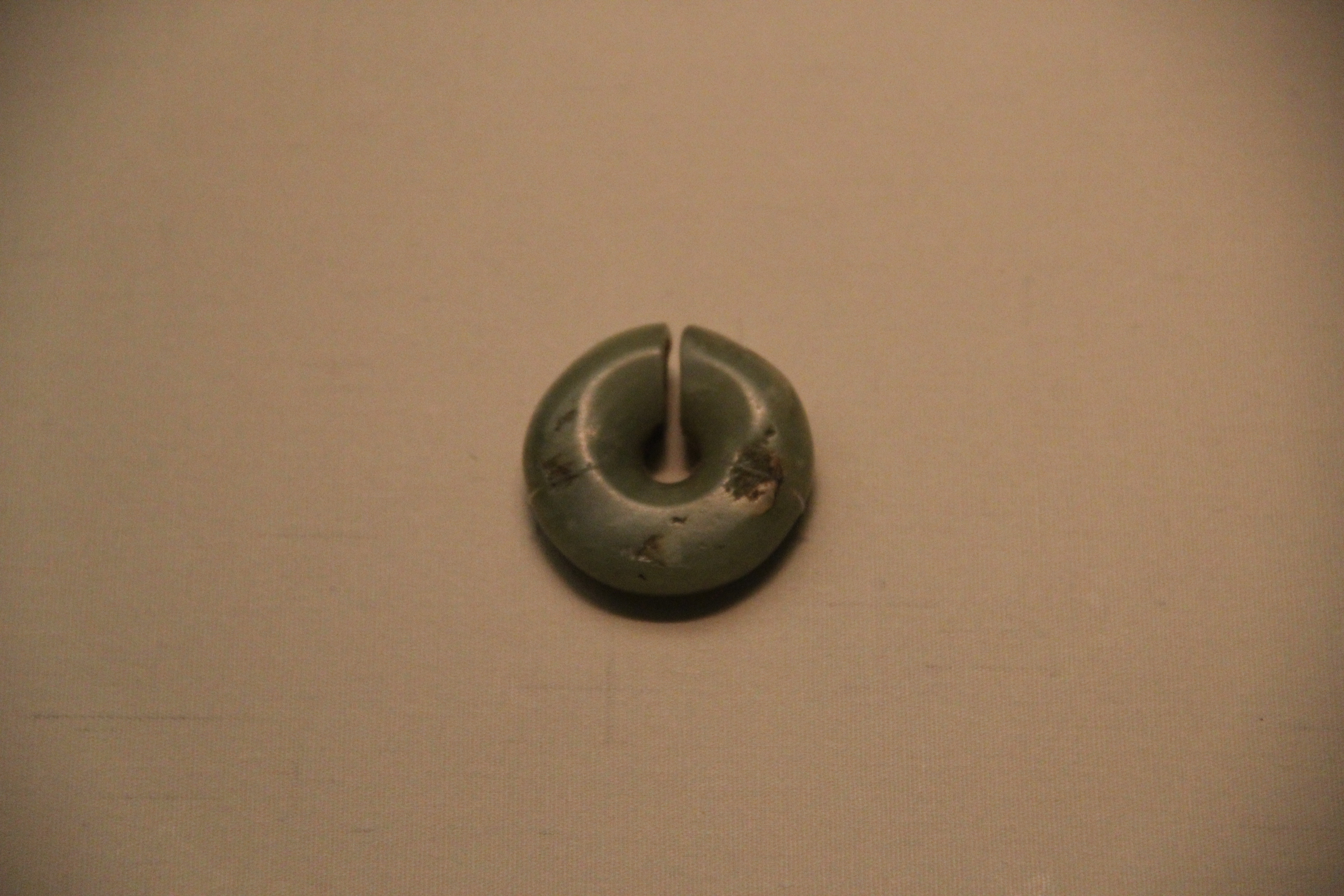 Neolithic jade ornament with light wear